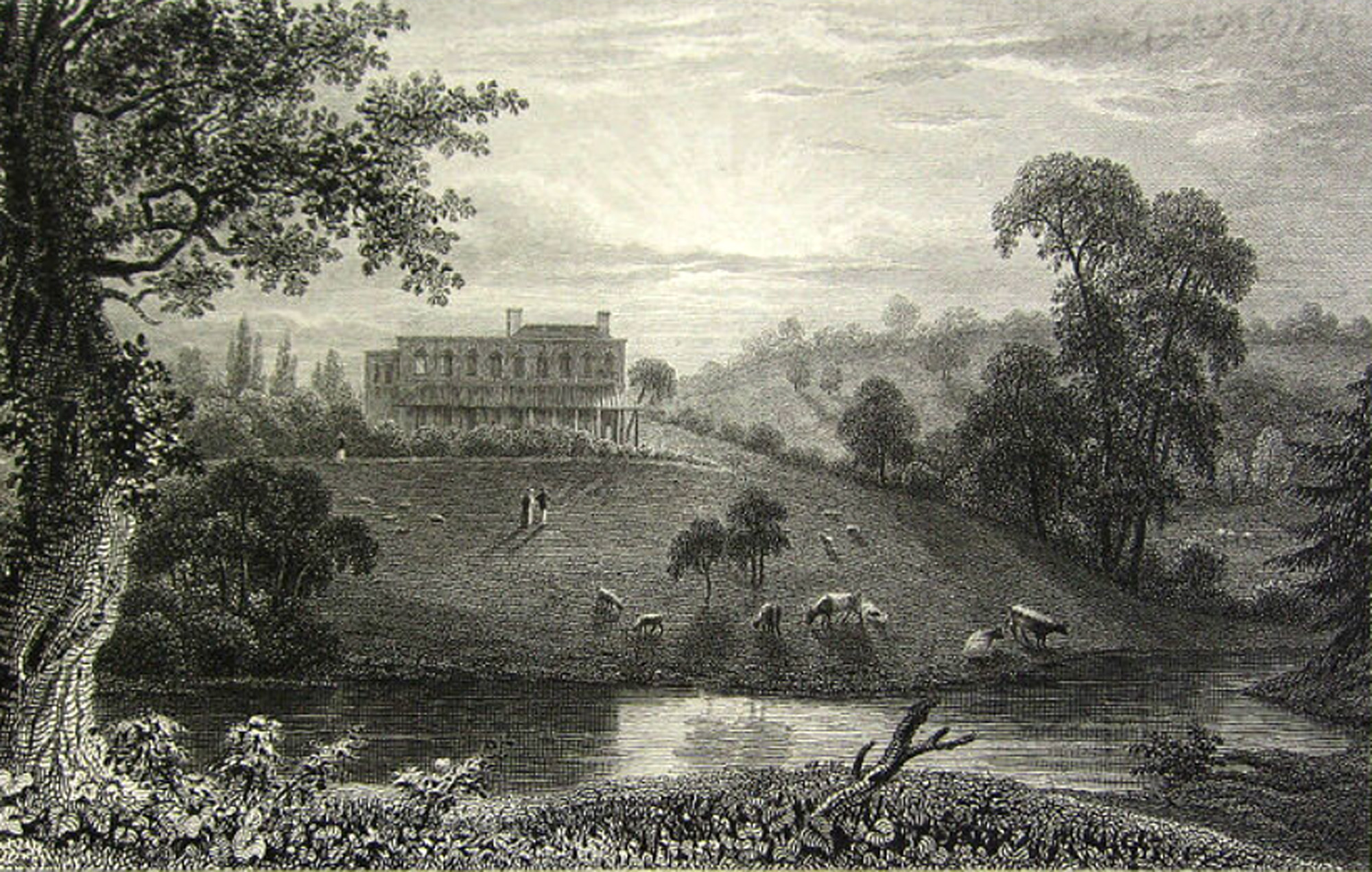 Rear-Admiral Robert Mansell's house at Charlton Kings, 1826